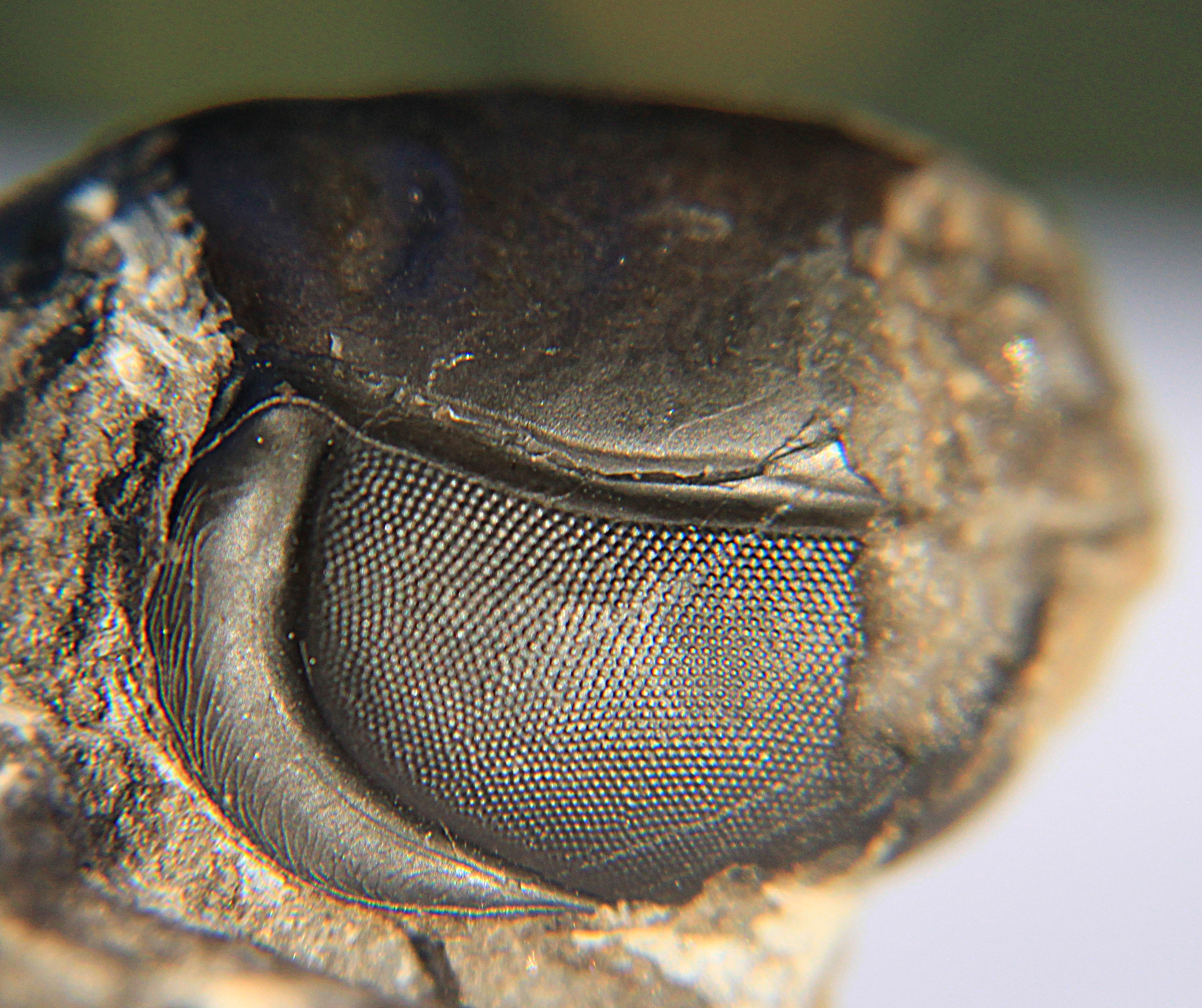 The cephalon of a Cyclopygid trilobite, probably Symphysops stevaninae, cephalon 24mm long, lateral view, found near Alnif, Morocco, from the Ordovician